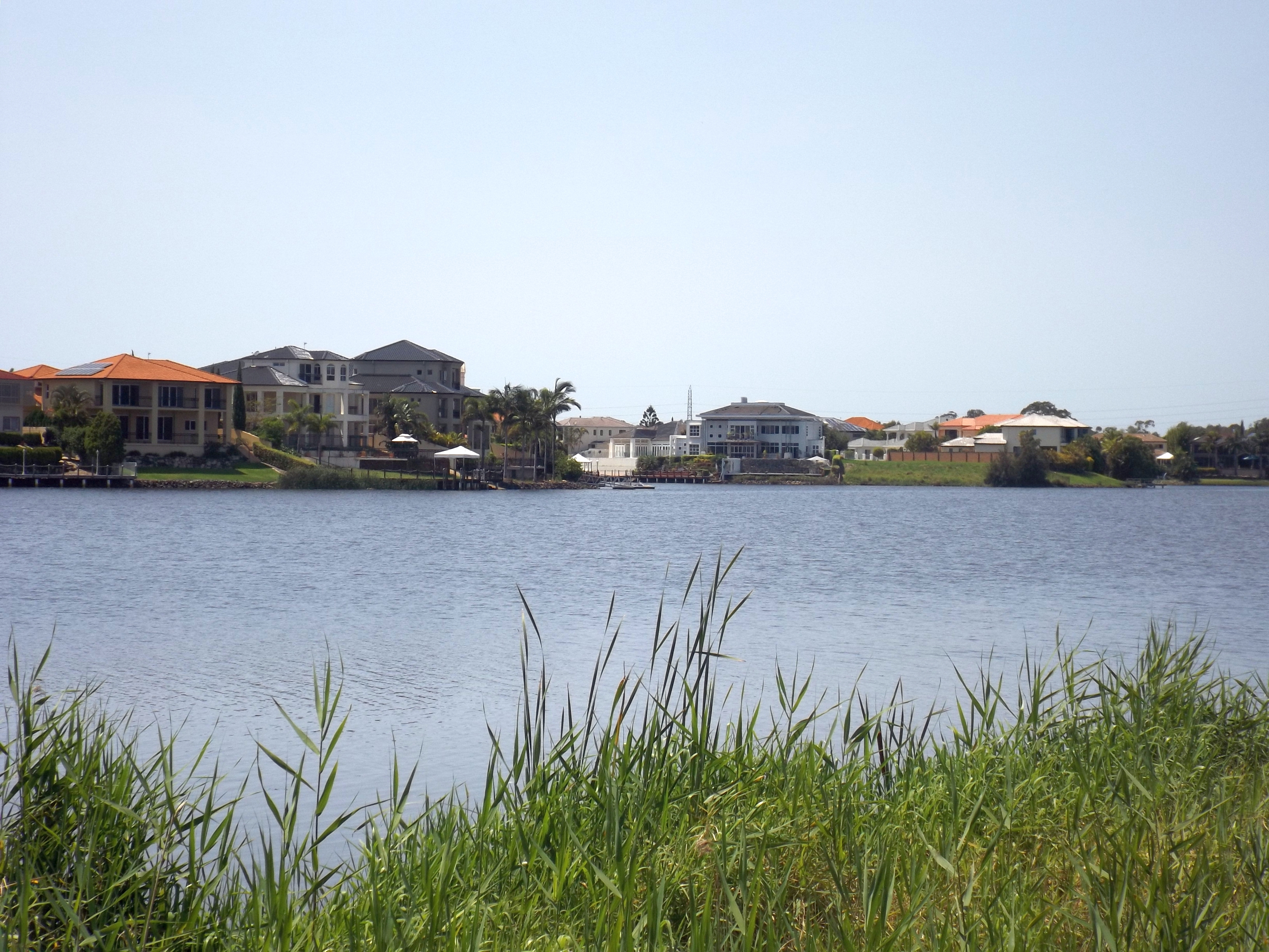 Photo of canal and houses in Clear Island Waters, Gold Coast City, Queensland, Australia.